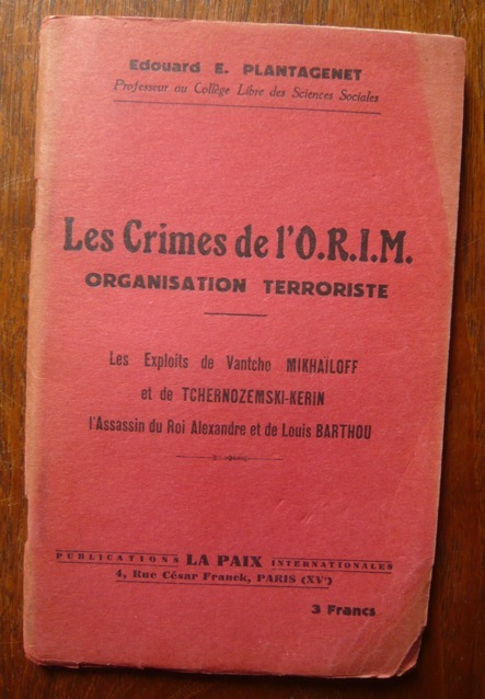 Cover page of book